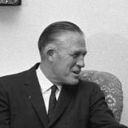 Title: Headshot of George W. Romney Extra information: Staatssekretär Karl Theodor Freiherr von und zu Guttenberg (rechts) empfängt den US Gouverneur von Michigan George W. Romney [republikanischer Präsidentschaftskandidat] People in the image: George W. Romney Factual corrections and alternative descriptions are encouraged separately from the original description. Additionally errors can be reported at this page to inform the Bundesarchiv. Original historic description: Cropped from a photograph of Romney with Staatssekretär Karl Theodor Freiherr